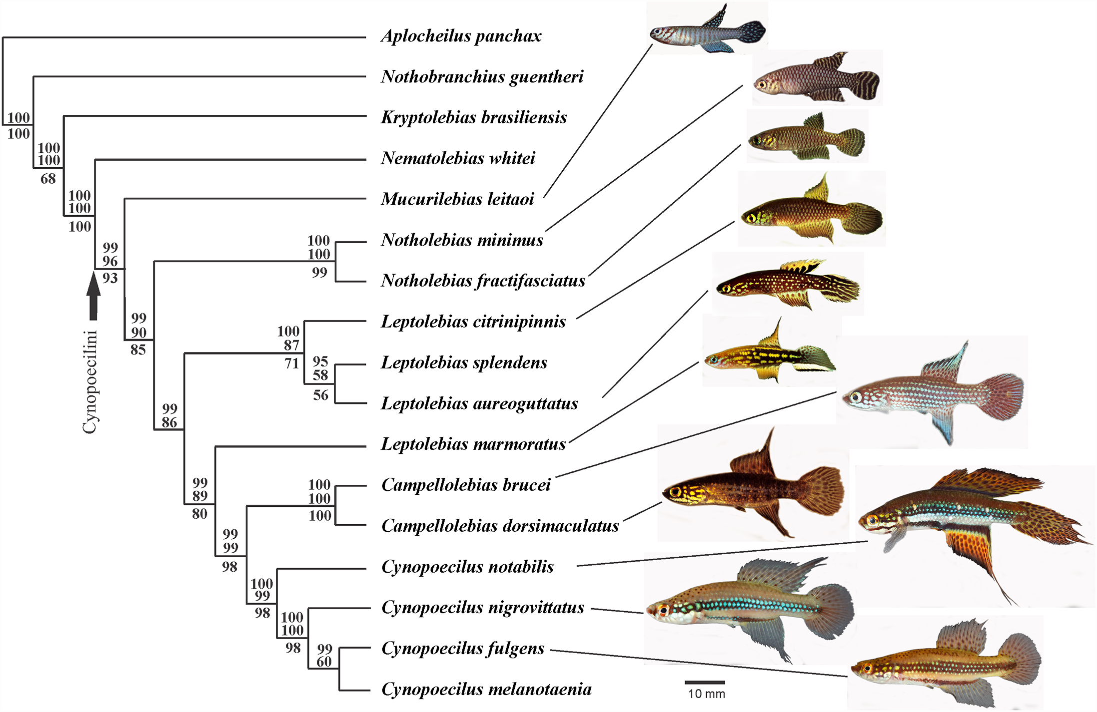 Single most parsimonious tree from the combined analysis of 115 morphological characters and a molecular data set, total of 2,108 bp, comprising segments of the nuclear genes GLYT1, ENC1, Rho. Numbers above branches are posterior probabilities of the Bayesian analysis higher than 95% (above) and bootstrap percentages of the maximum parsimony analysis higher than 50% (below), for the combined analysis; below branches, are bootstrap percentages higher than 50% for the analysis of morphological data alone. Photographs of male specimens were taken between five and 24 hours after field collection; unpaired fins are often damaged as a result of the strong aggressive behaviour occurring in cynopoeciline males.